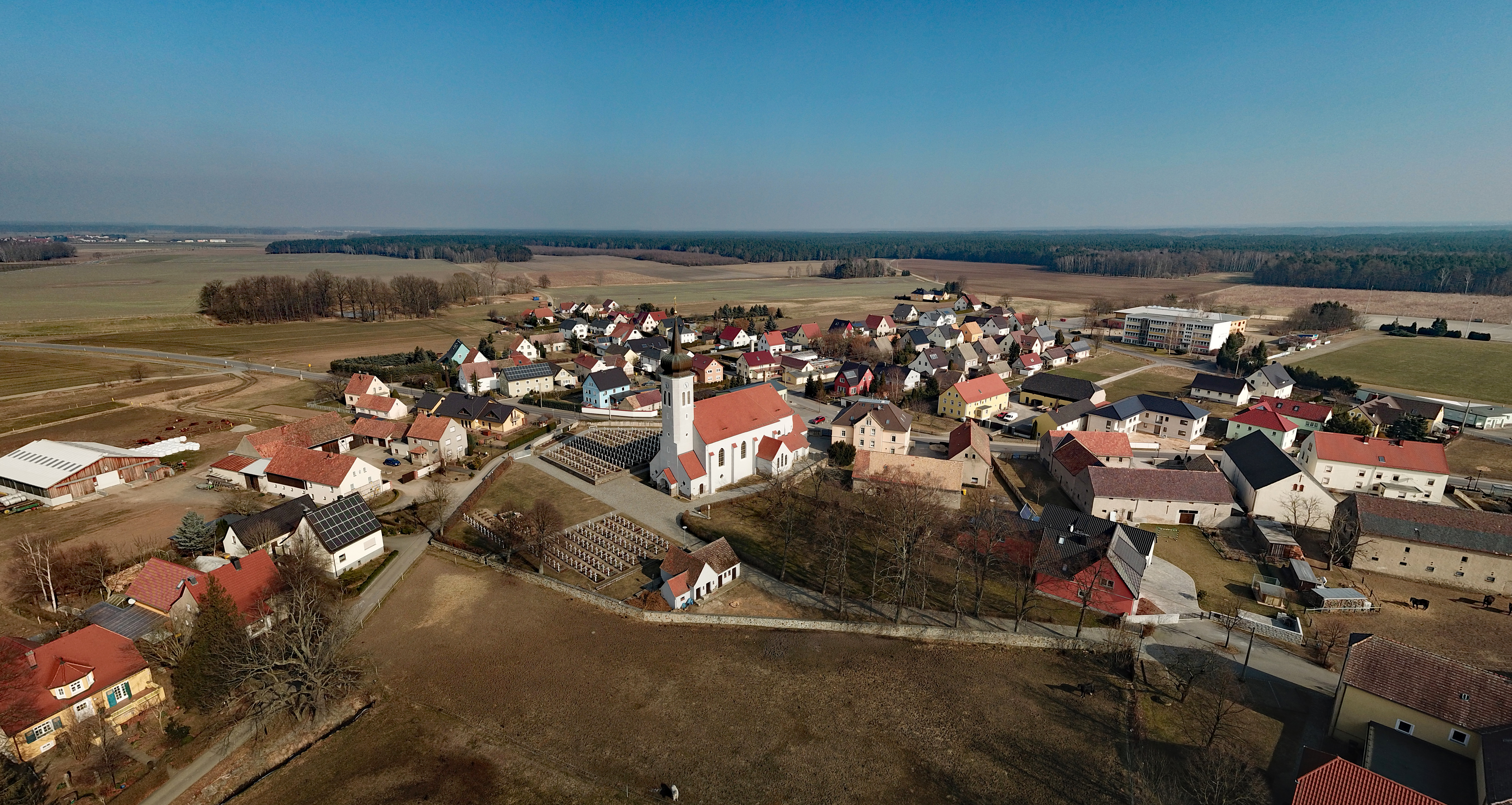 Ralbitz (Saxony, Germany) Hornjoserbsce: Powětrowy wobraz Ralbic